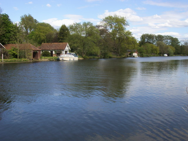 River Thames